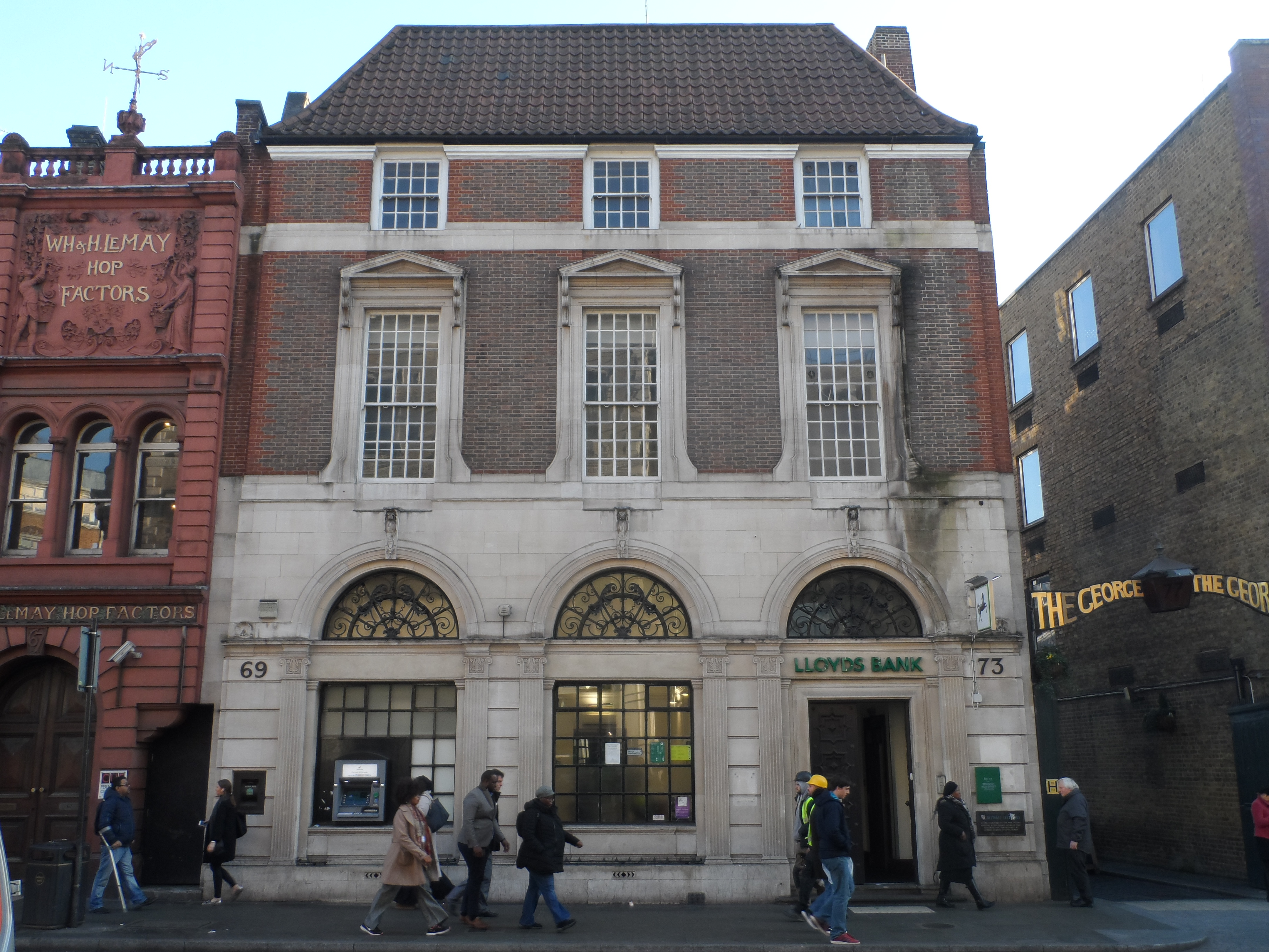 Exterior view of Lloyds Bank, 69-73 Borough High Street, Southwark, London, UK. This building was designed by architect Philip Hepworth and opened in 1928.